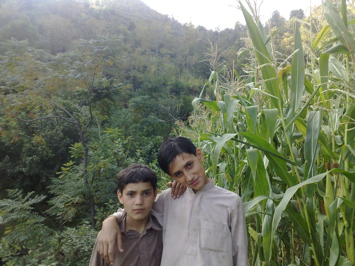 Photo of BAHADAR Village, near Zaimdara (Zimdara), in Maidan Valley, Lower Dir District, KPK, Pakistan